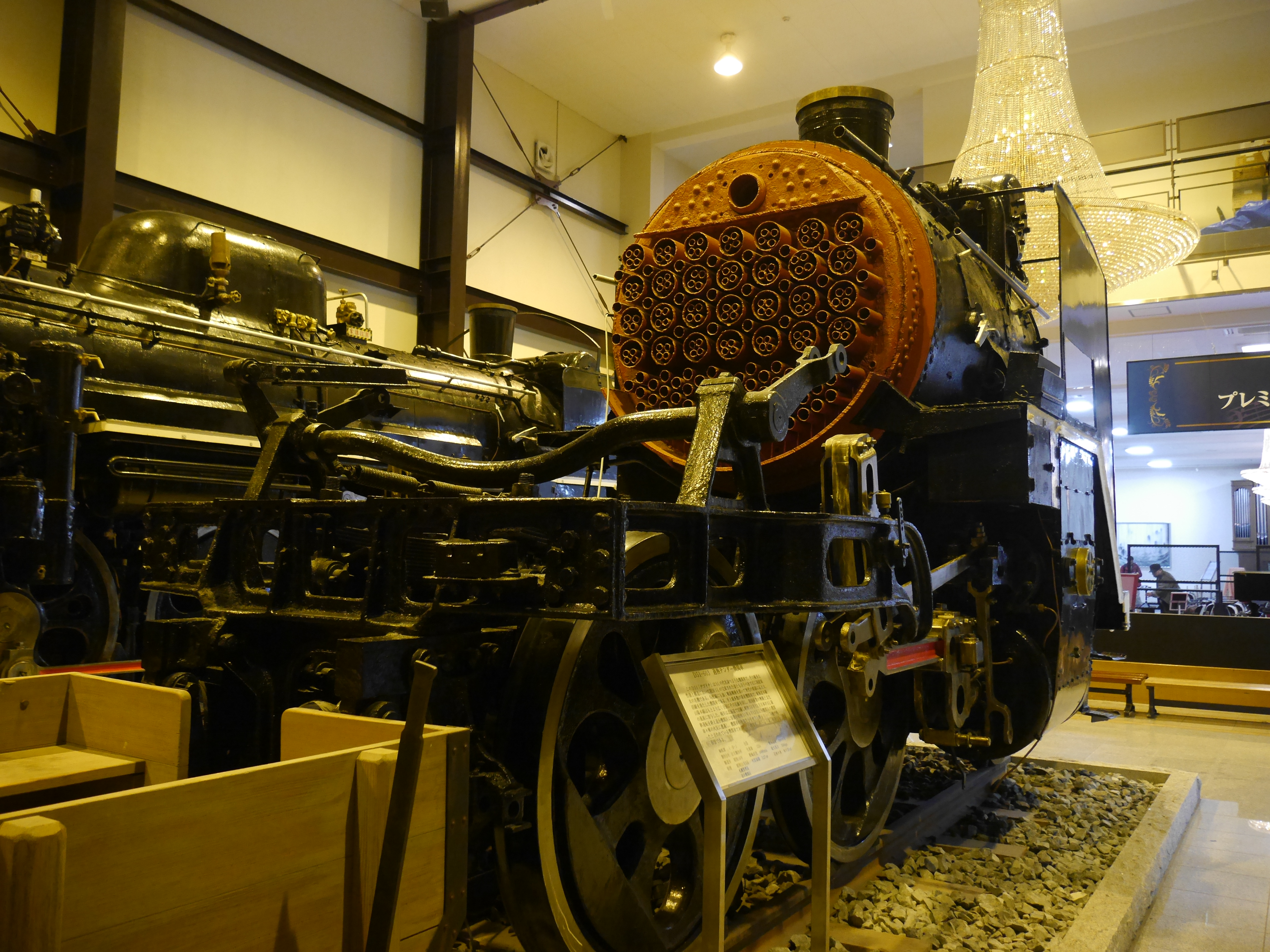 A part of D51 603 Steam engine at the 19th century hall adjacent to Torokko Saga station